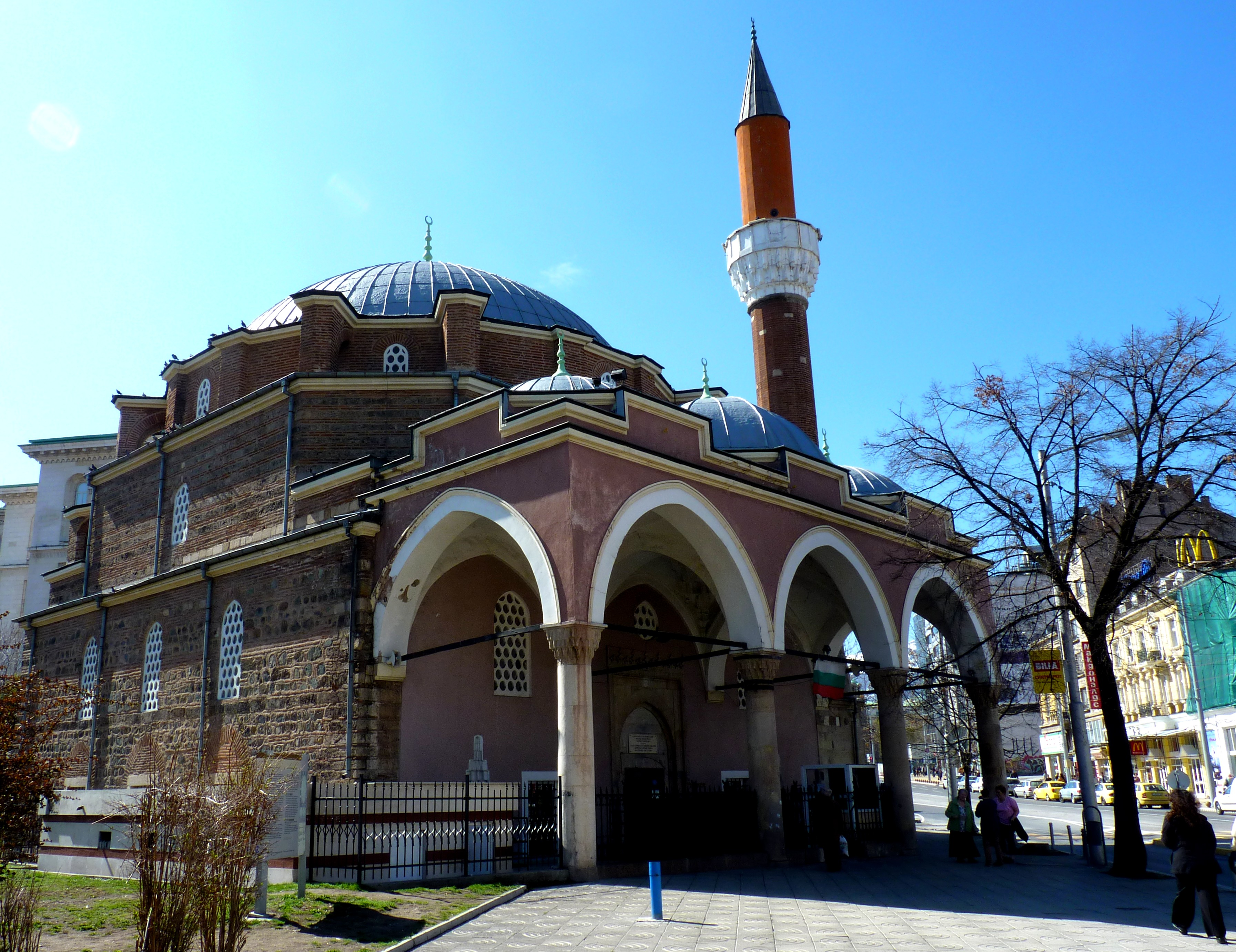 The Banya Bashi Mosque in Sofia was built in 1576 by Hadhzi Mimar Sonah.